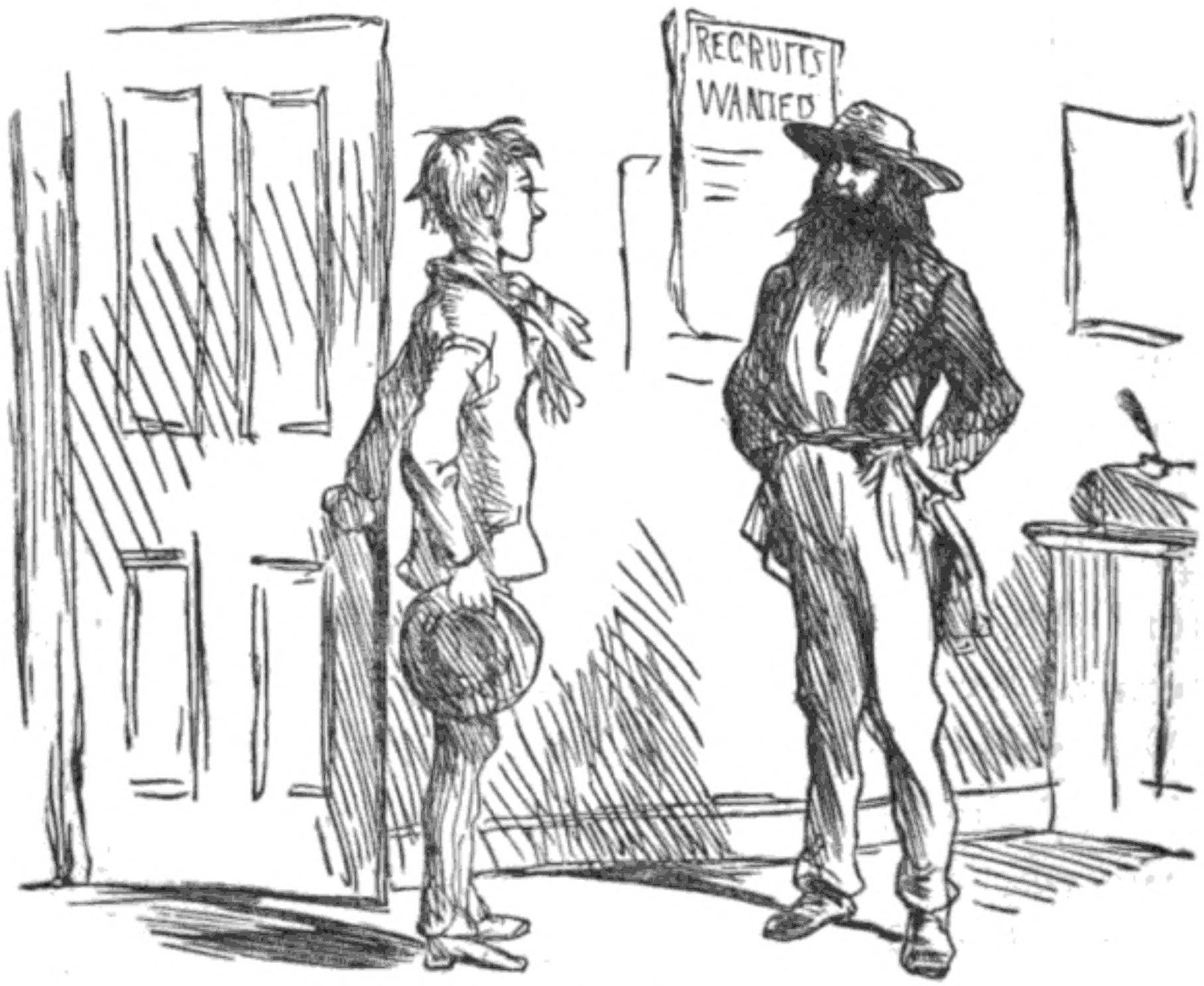 The Enlistment, from Eleven Years in the Rocky Mountains and a life on the frontier